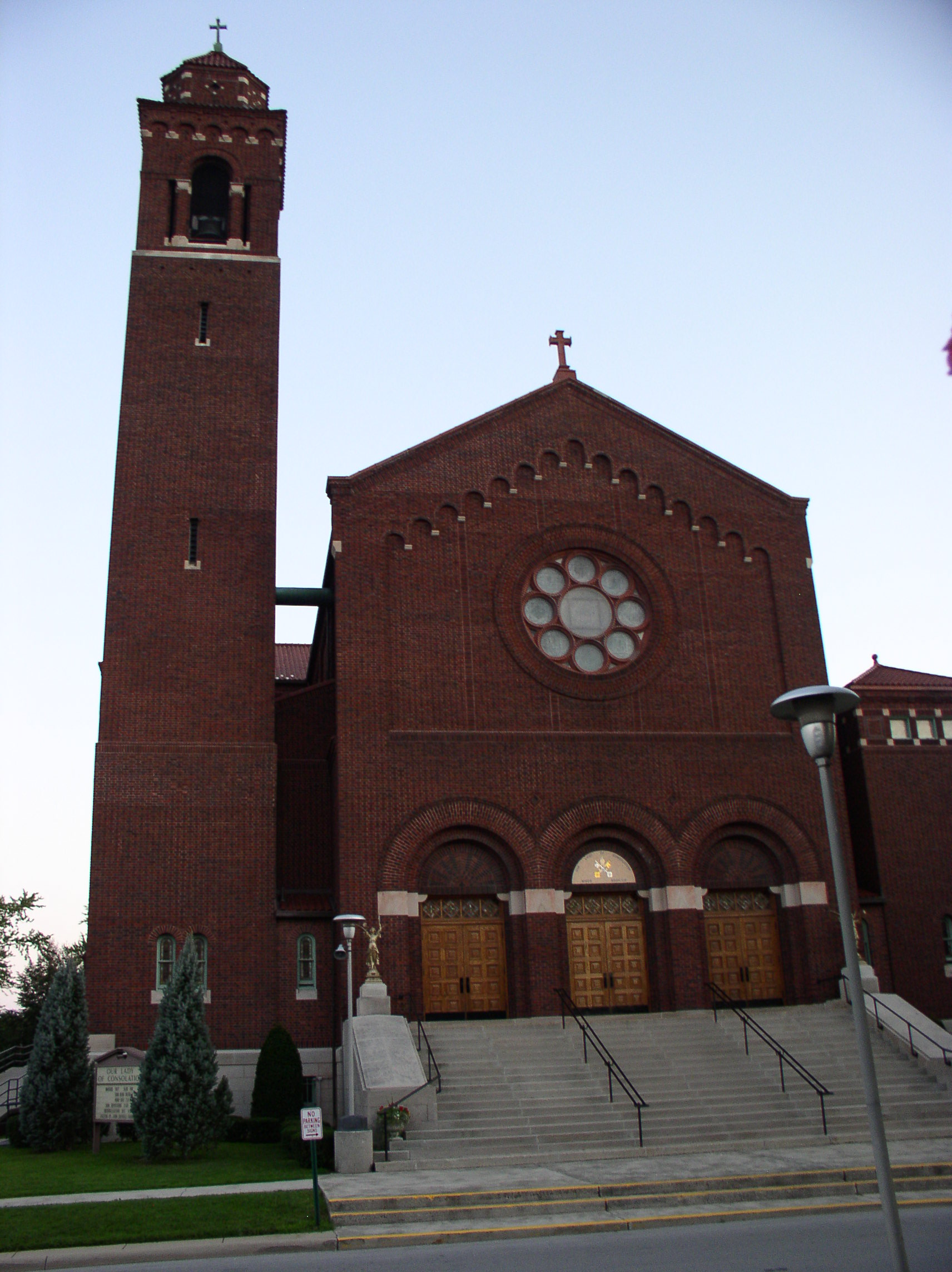 The front of the basilica at the Basilica and Shrine of Our Lady of Consolation in Carey, Ohio